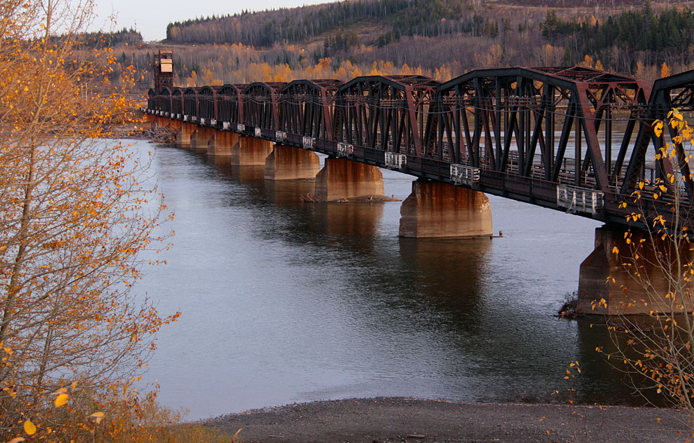 The Grand Trunk Pacific Railway Bridge crossing the Fraser River at Prince George. Built 1915.